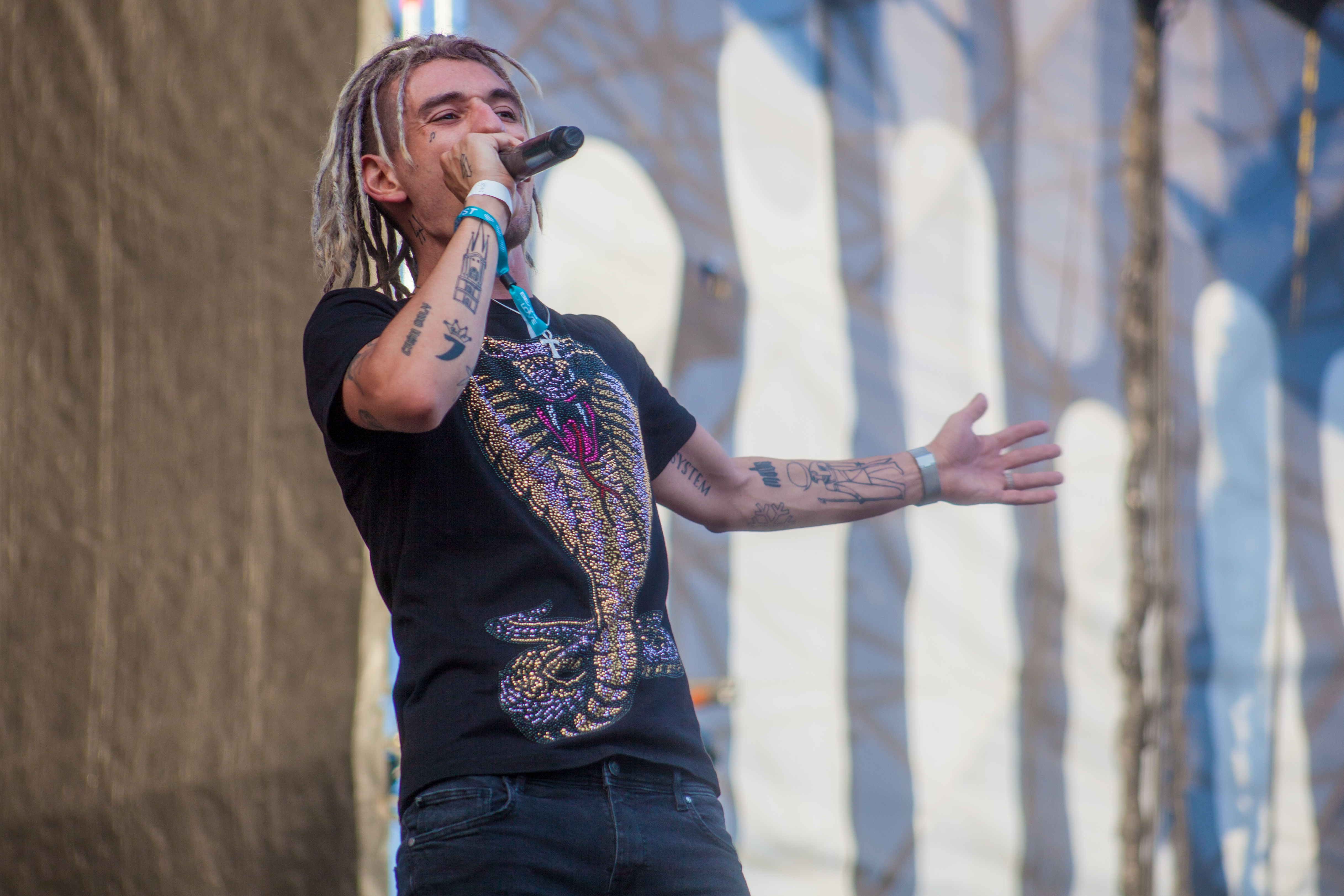 Czech rapper Lvcas Dope performing at electronic music festival Beats for Love 2019 (Ostrava, Czechia) on 6 July 2019